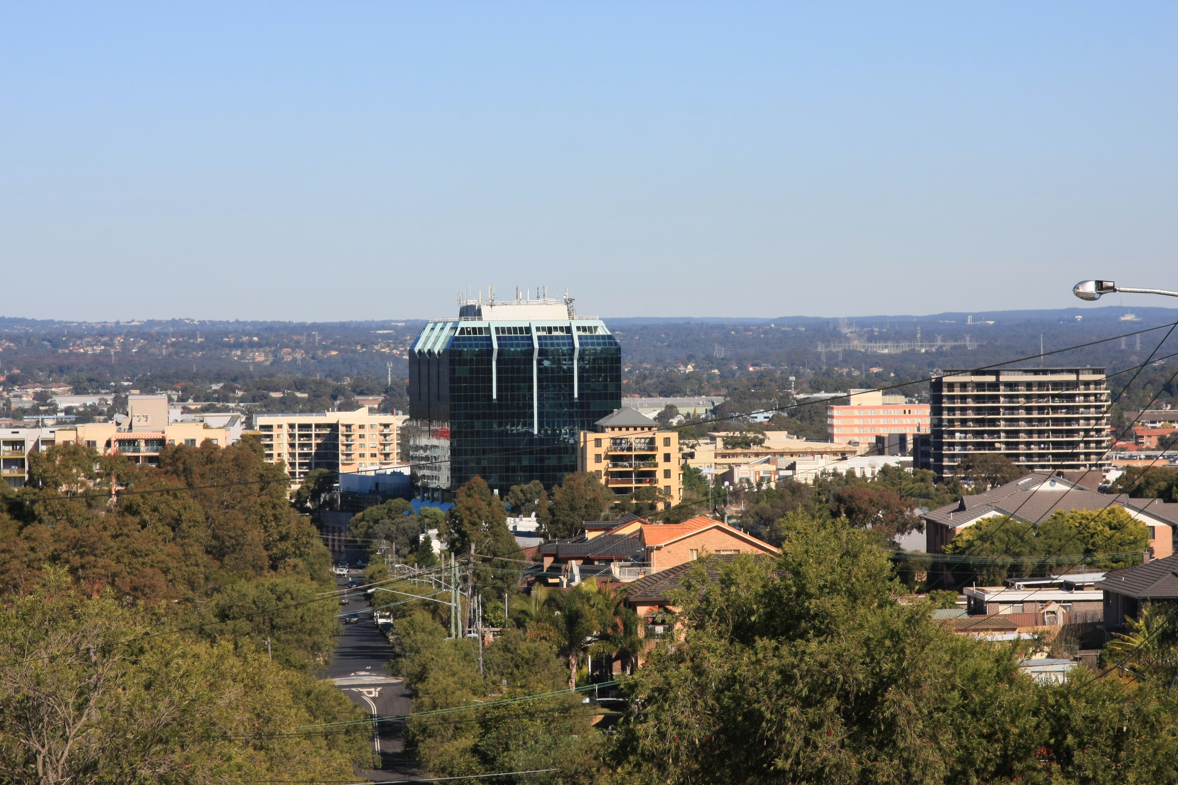 City of Bankstown from Jacobs Street